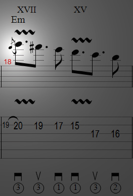 Scan of a note sheet that I transcribed with a spotlight focus on an appoggiatura - notation